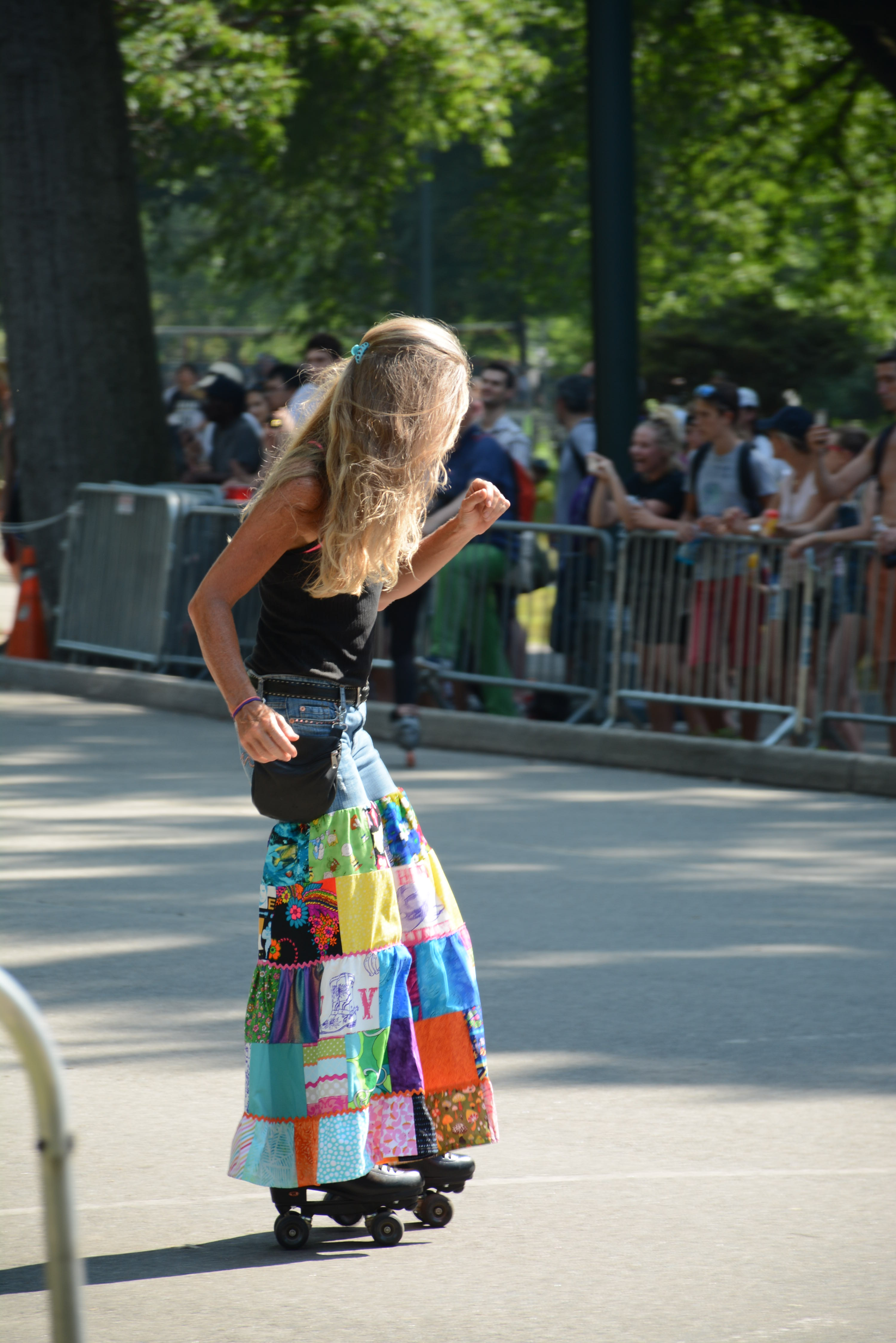 Roller skating in Central Park